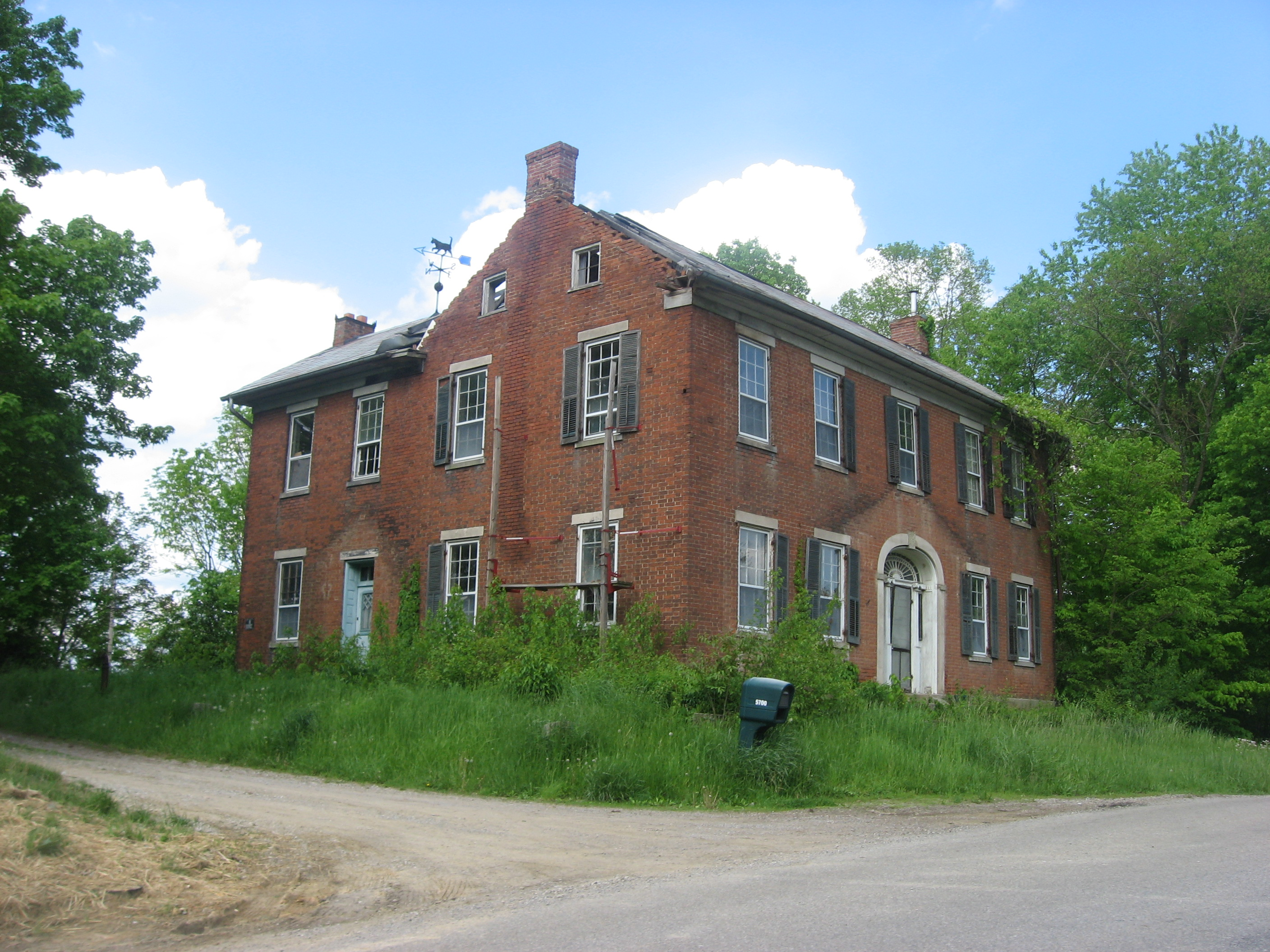 Front and western side of the Randolph Mitchell House, located at 5700 Rush Creek Road at New Reading in Reading Township, Perry County, Ohio, United States. Built in 1828, it is listed on the National Register of Historic Places.